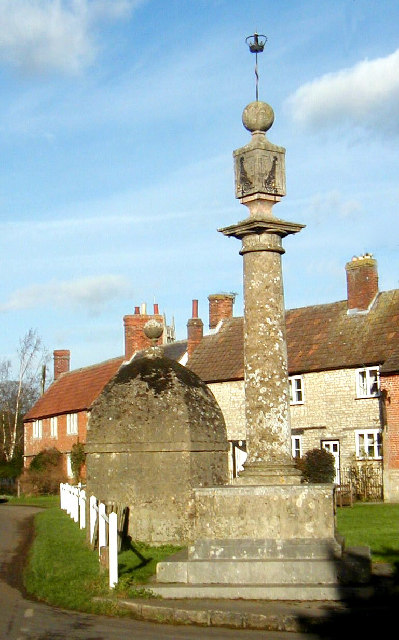 Steeple Ashton. Cottages, the lockup and the sundial